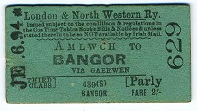 LNWR train ticket dated 1894, for travel in North Wales from Amlwch to Bangor